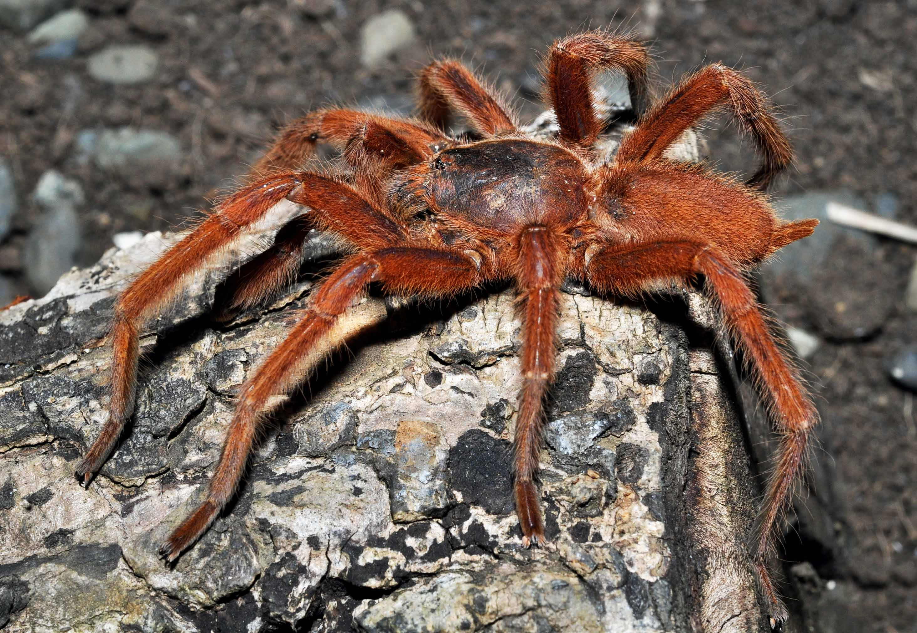 O.philippinus